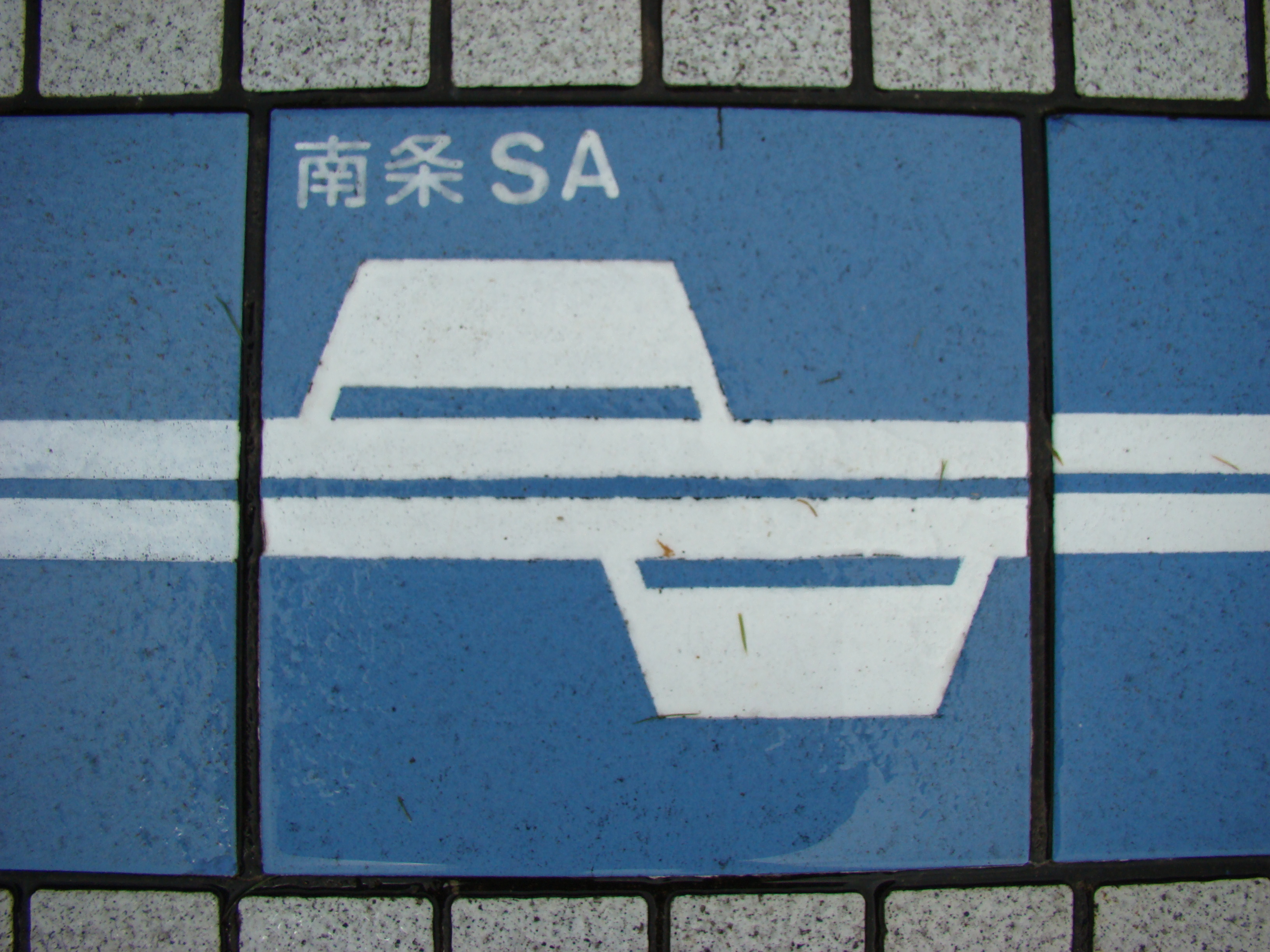 The tile which designed a shape of the Nanjo Service Area（Hokuriku Expressway）（There is this tile in Hokuriku Expressway Nadachi-Tanihama Service Area.）. Place - Chayagahara,Joetsu City,Niigata Prefecture,Japan Date - August 9, 2009 Format - JPEG, 3264x2448pixel, 24bit colors. Photographer - NALA Wiki (talk)